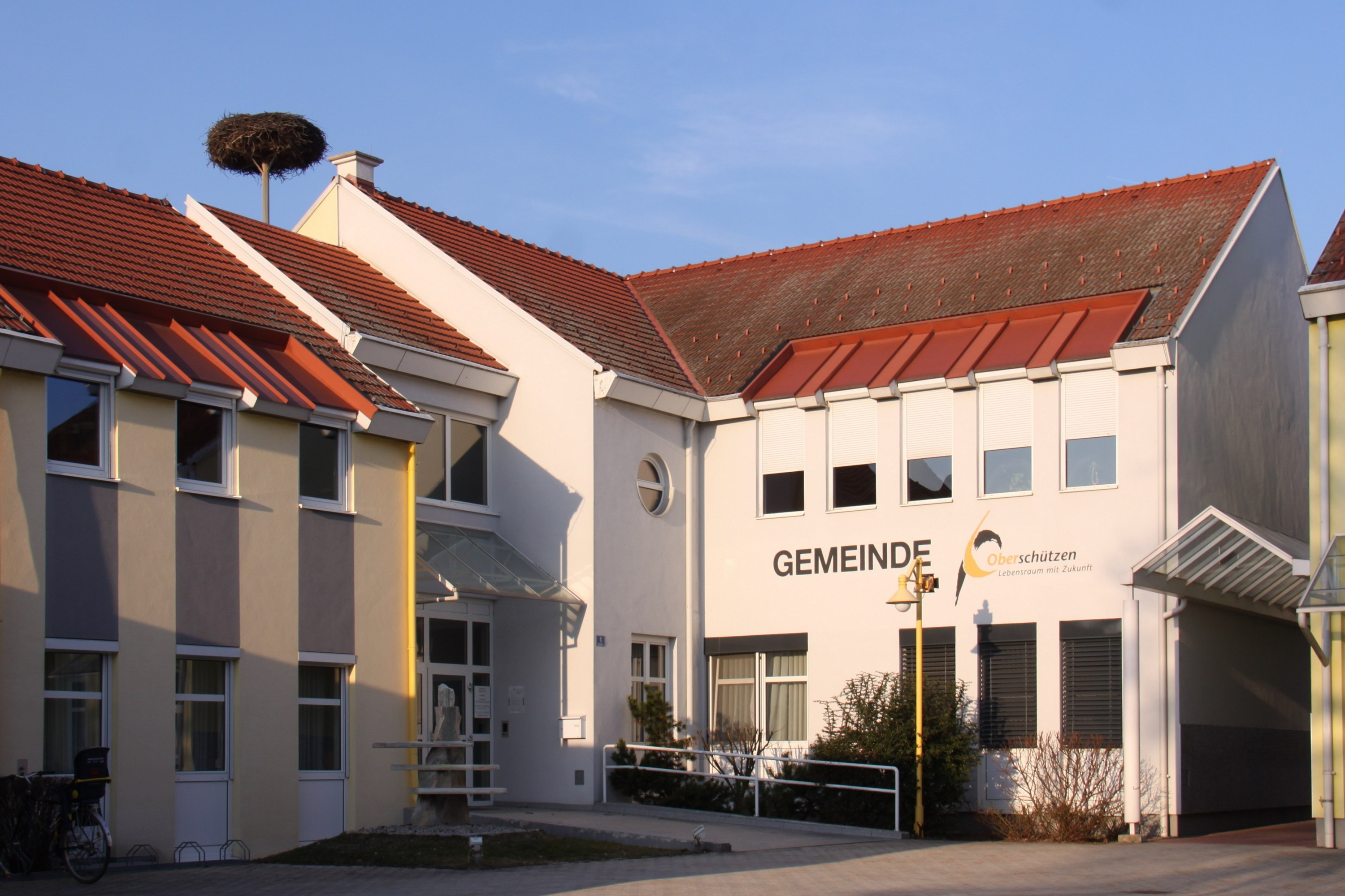 Oberschützen - municipal office